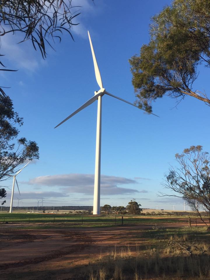 The wind turbines at Collgar wind farm